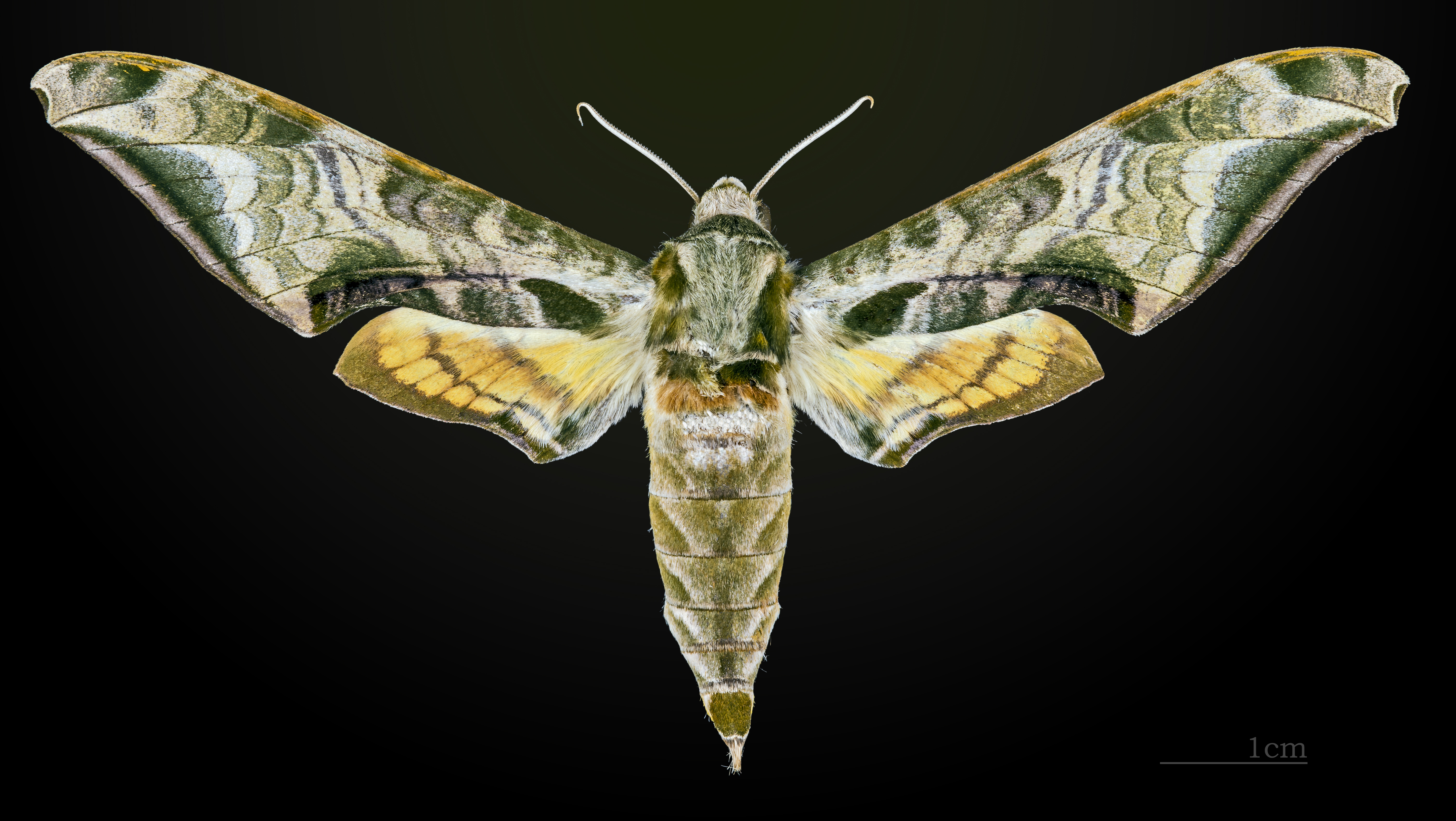 Protambulyx astygonus - Dorsal side Collection of the Mathematician Laurent Schwartz